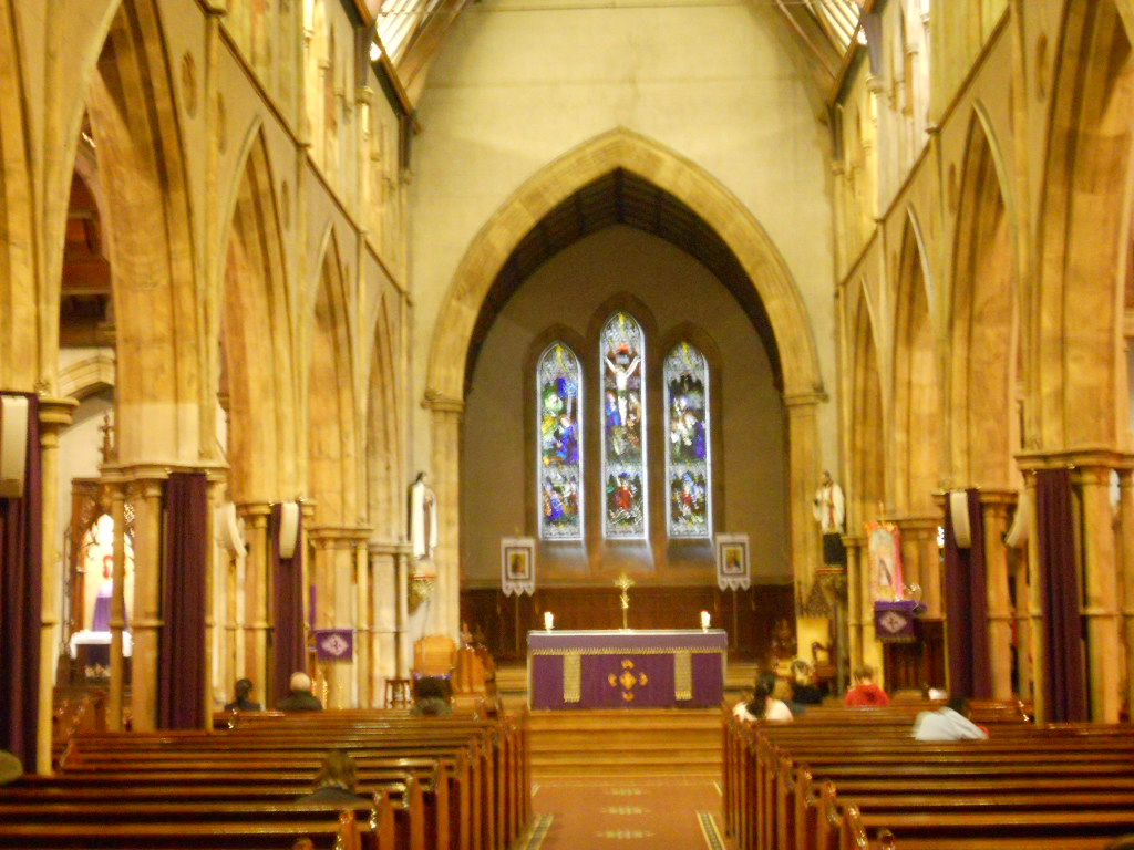 St Francis Xavier Cathedral Interior